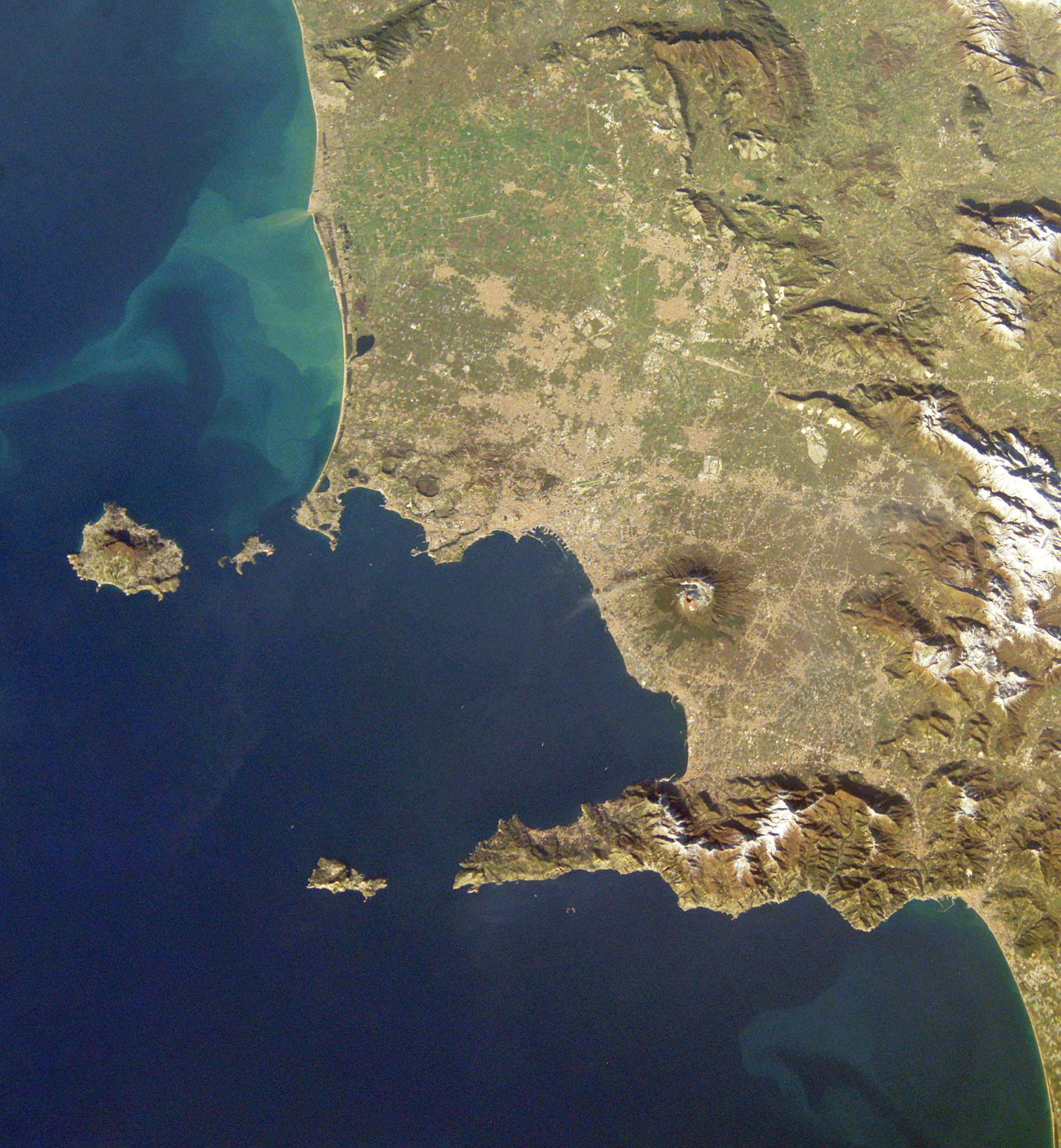 Naples, Mt. Vesuvius